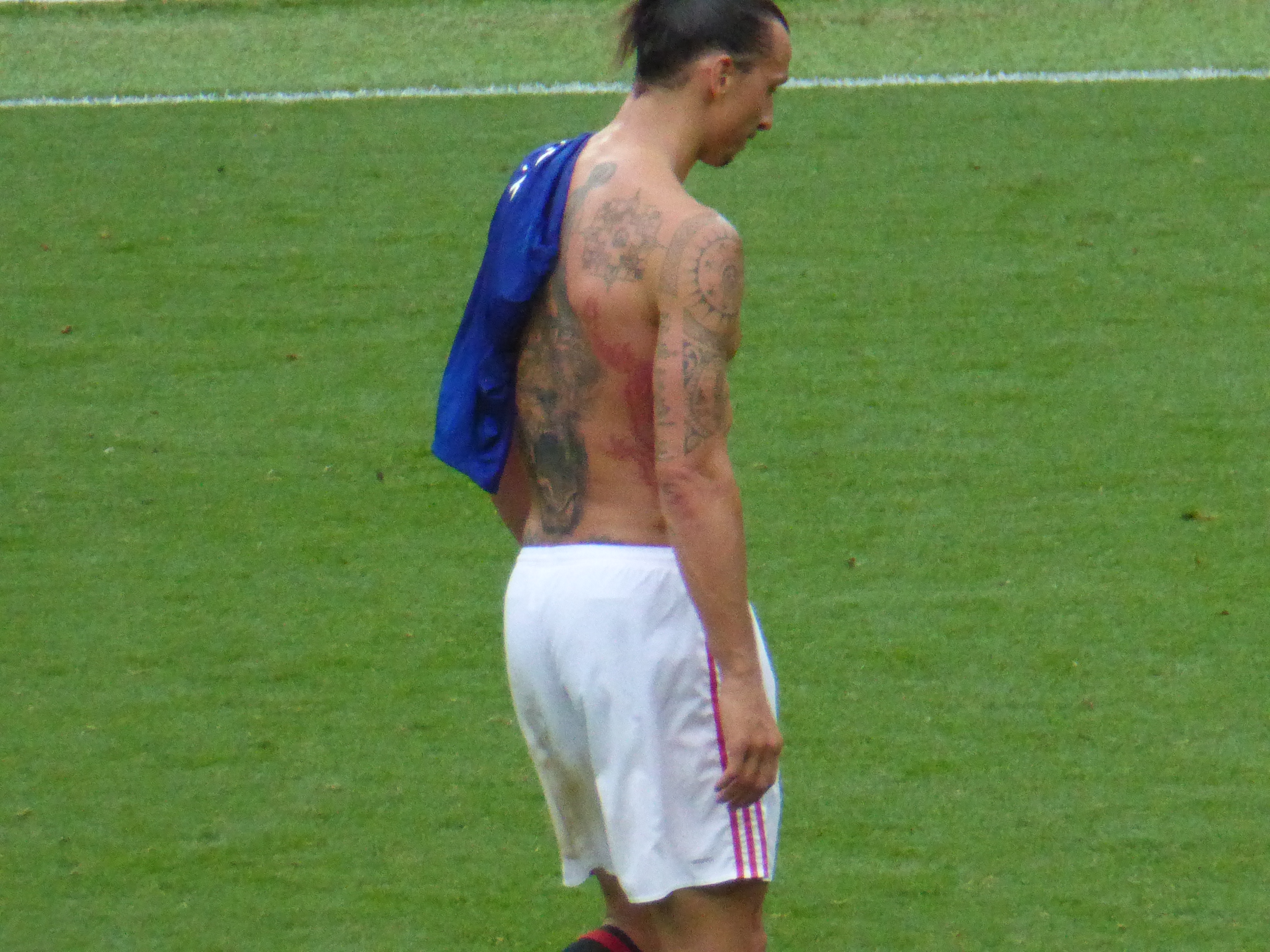 Manchester United v Leicester City (4-1), Old Trafford, Manchester, Greater Manchester, England, September 2016